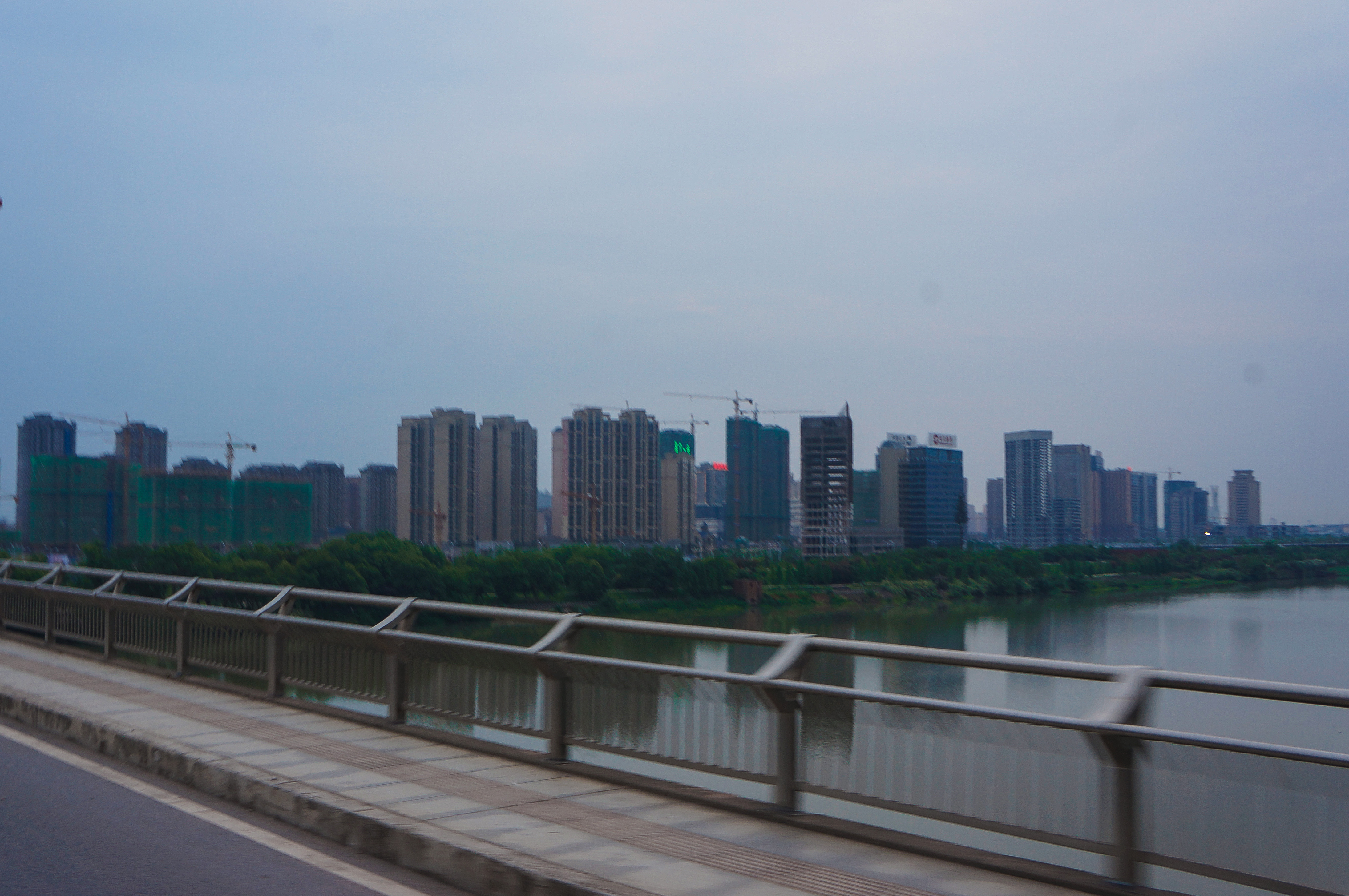 201705 Xinjiang New District, Yingtan. Yingtan old downtown is very small but crowded, Xinjiang New District looks good